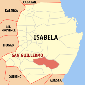 Map of Isabela showing the location of San Guillermo